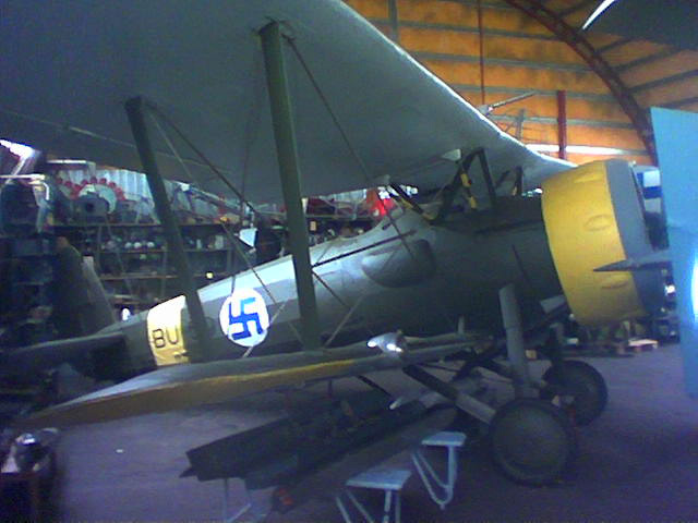 Former Finnish Air Force Bristol Bulldog fighter aircraft. Photo taken in Hallinportti aviation museum on May 23, 2005.